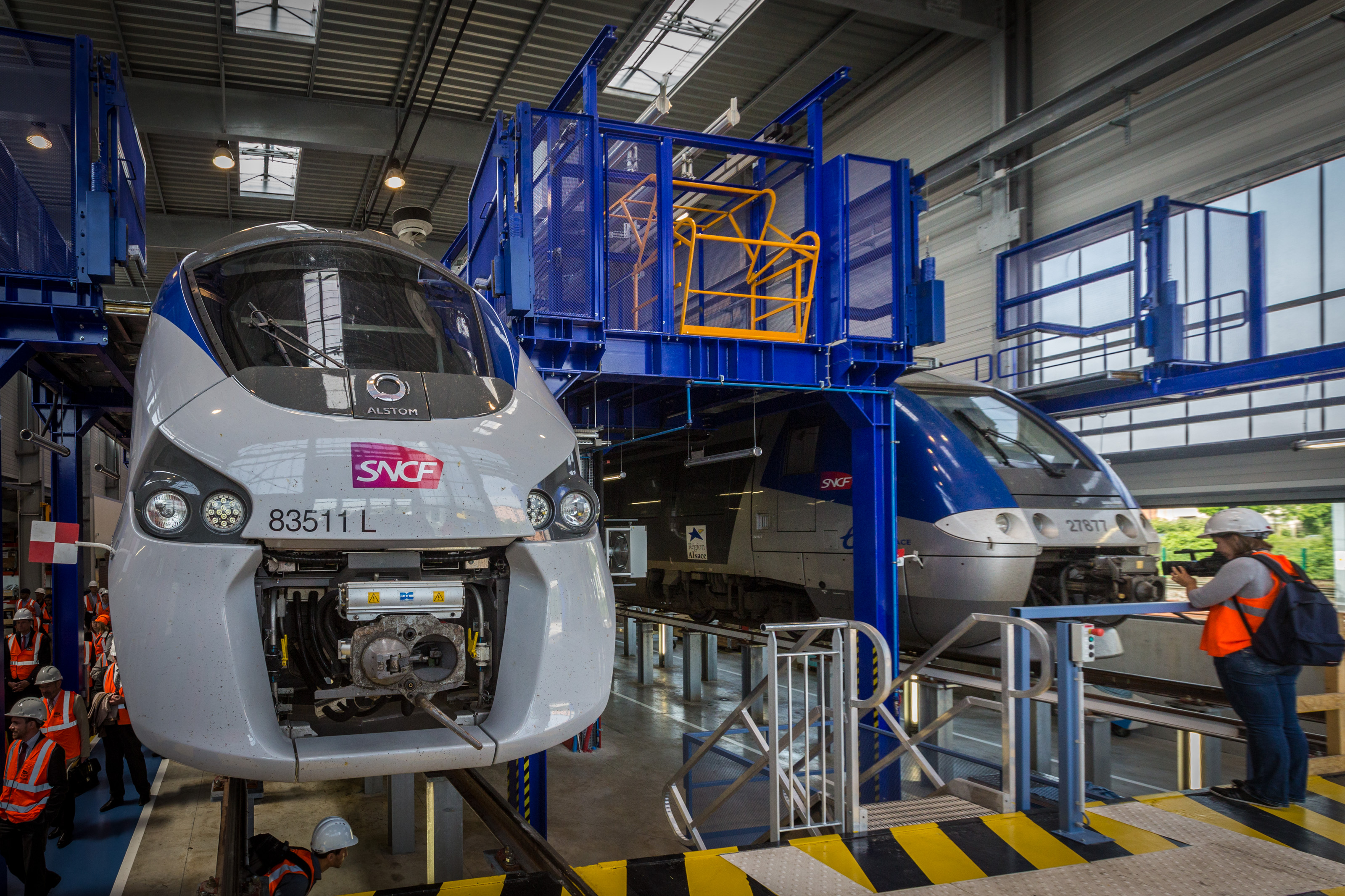 Technicentre TER Alsace Mulhouse Nord 28 mai 2015